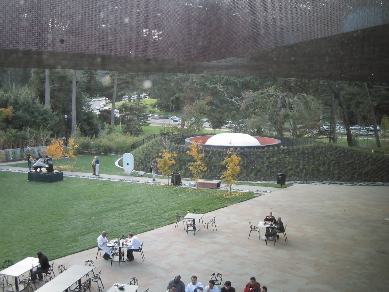 James Turrell Skyspace exterior. Behind the deYoung, there is a sculpture garden. Included in the collection is a Skyspace by artist and naked eye astronomer James Turrell. The basic idea is to create a room that has the same lighting levels as the sky at twilight. When this occurs, the sky appears to become part of the ceiling in the room. Except the clouds move!